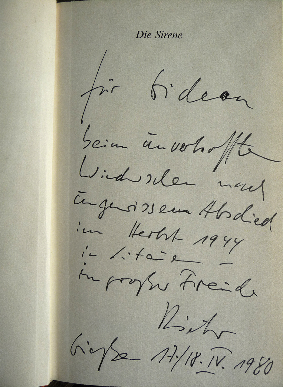 Dedication from Dieter Wellershoff to Gideon Schüler